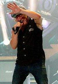 Brian Johnson at the Tacoma Dome in Tacoma, Washington, November 30, 2008.